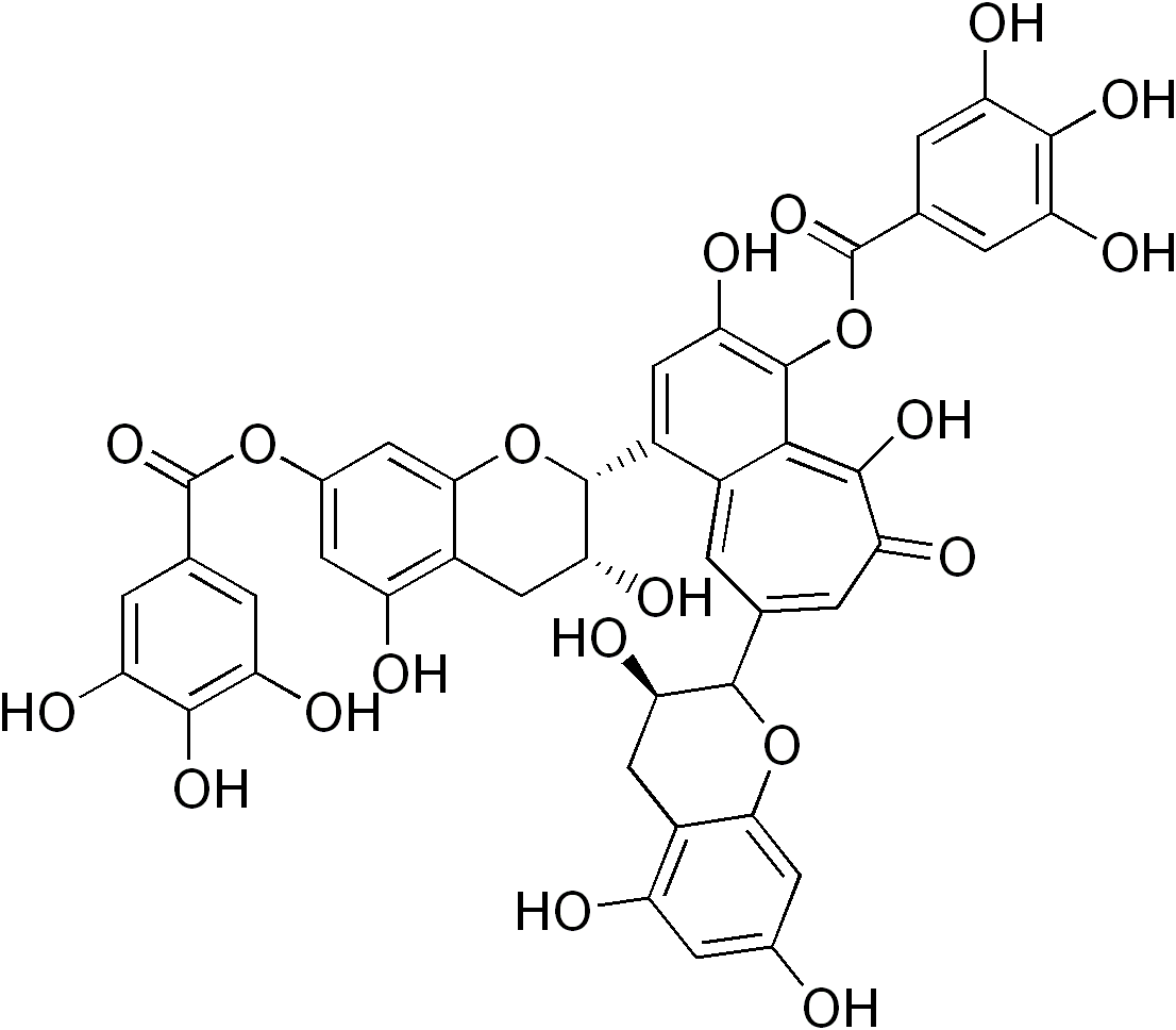 chemical structure of theaflavin digallate